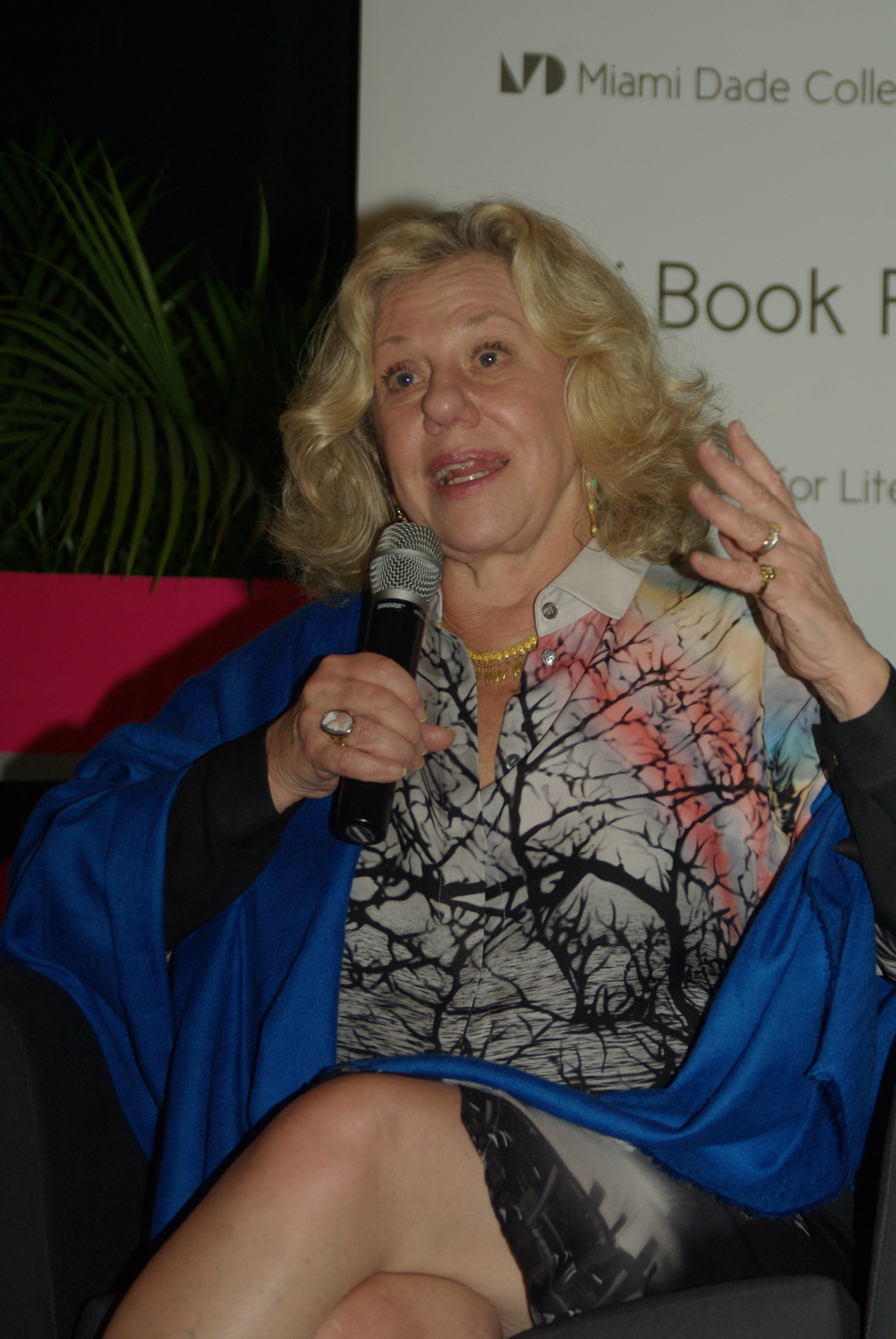 Erica Jong at the Miami Book Fair International 2013